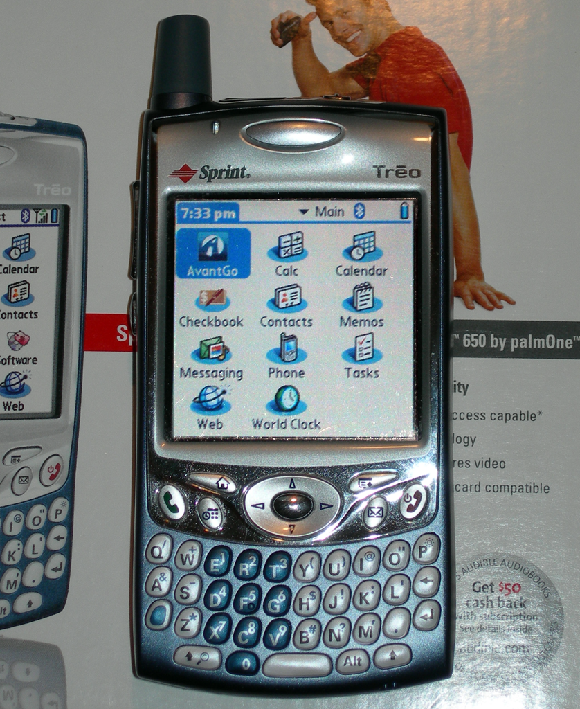 Photo of a Treo 650 SmartPhone. This particular handset is the CDMA version, branded for the Sprint wireless network in the US.